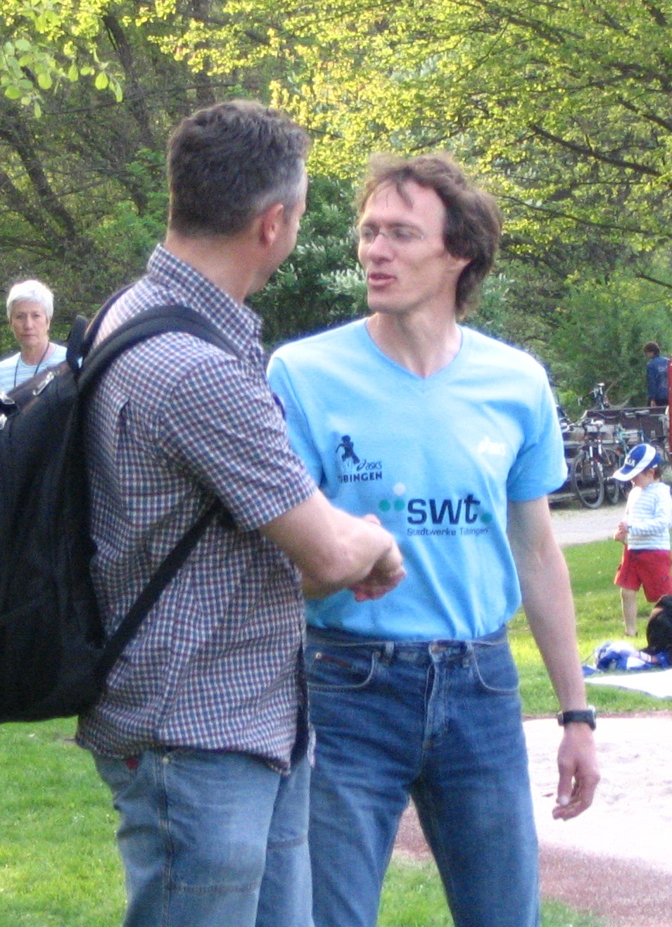 Dieter Baumann, German athlete and 1992 Olympic Gold meadllist over 5000 m. Picture aken during 2006 German 10000 m championship in Tübingen, 2006.